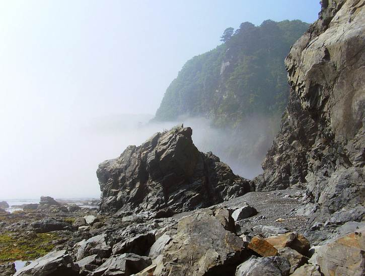 Yamase:Unos-cliff,Magisawa,Tanohata-villege,Simohei-county,Iwate-prefecture,Japan